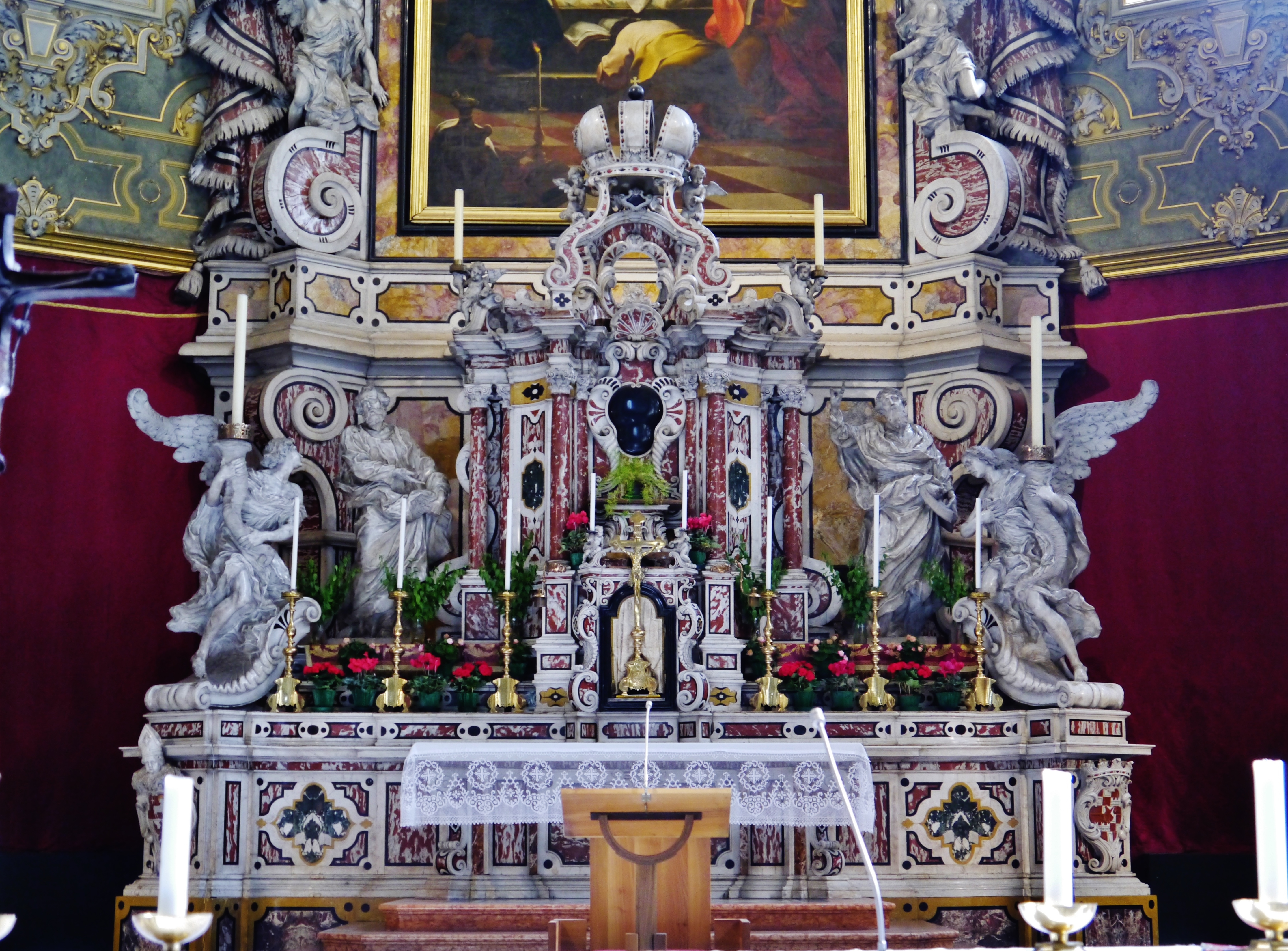 High Altar of the Cathedral of St. Mary Assumption, Bressanone, Province of Bolzano (South Tyrol), Region of Trentino-Alto Adige/Südtirol, Italy